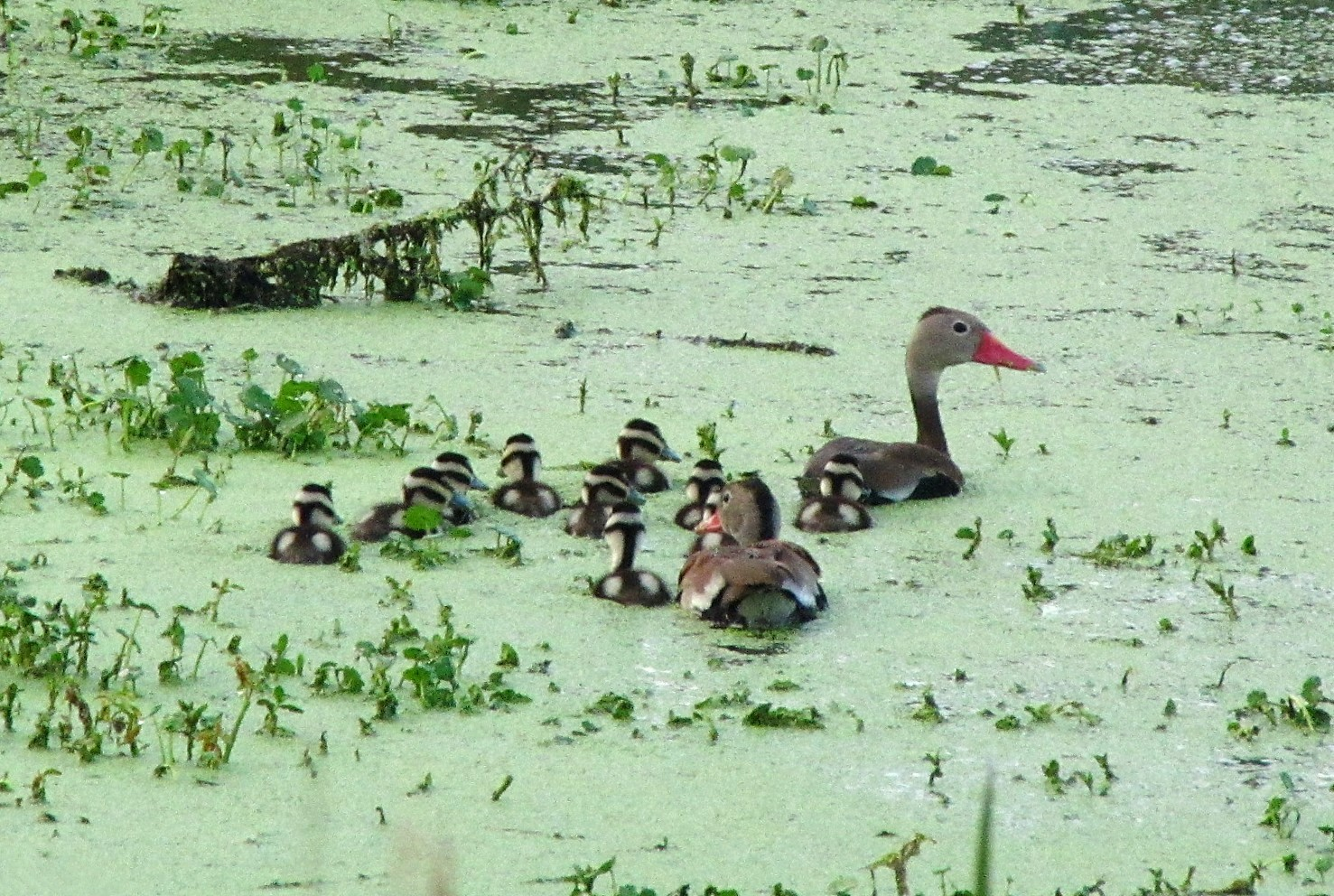 A Black-bellied Whistling Duck family in Phinizy Swamp Nature Park Augusta, Georgia, the United States. Two of the four/five adults with ten ducklings. Only three ducklings survived to adulthood.